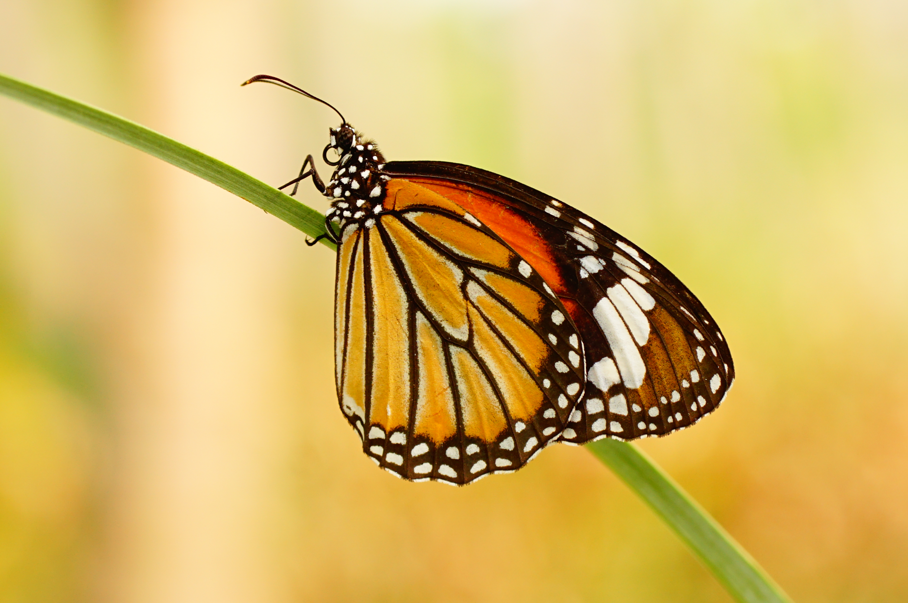 Common tiger(Danaus genutia ) , Kerala, India